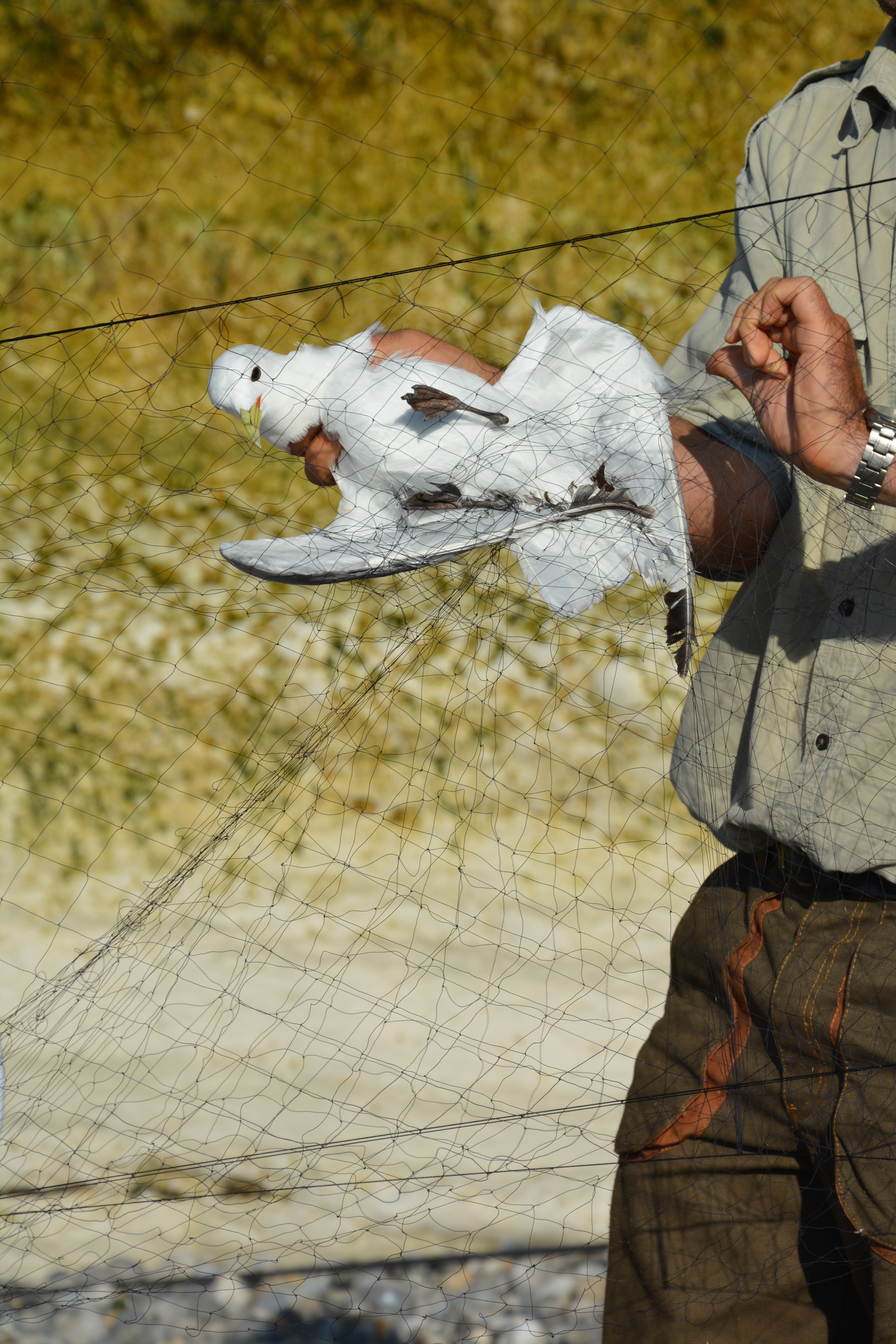 Kittiwake in net, at Cap Fagnet, Fécamp, France